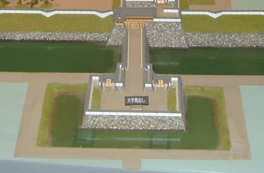 Scale model of umadashi of Sasayama castle, Hyogo prefecture, Japan